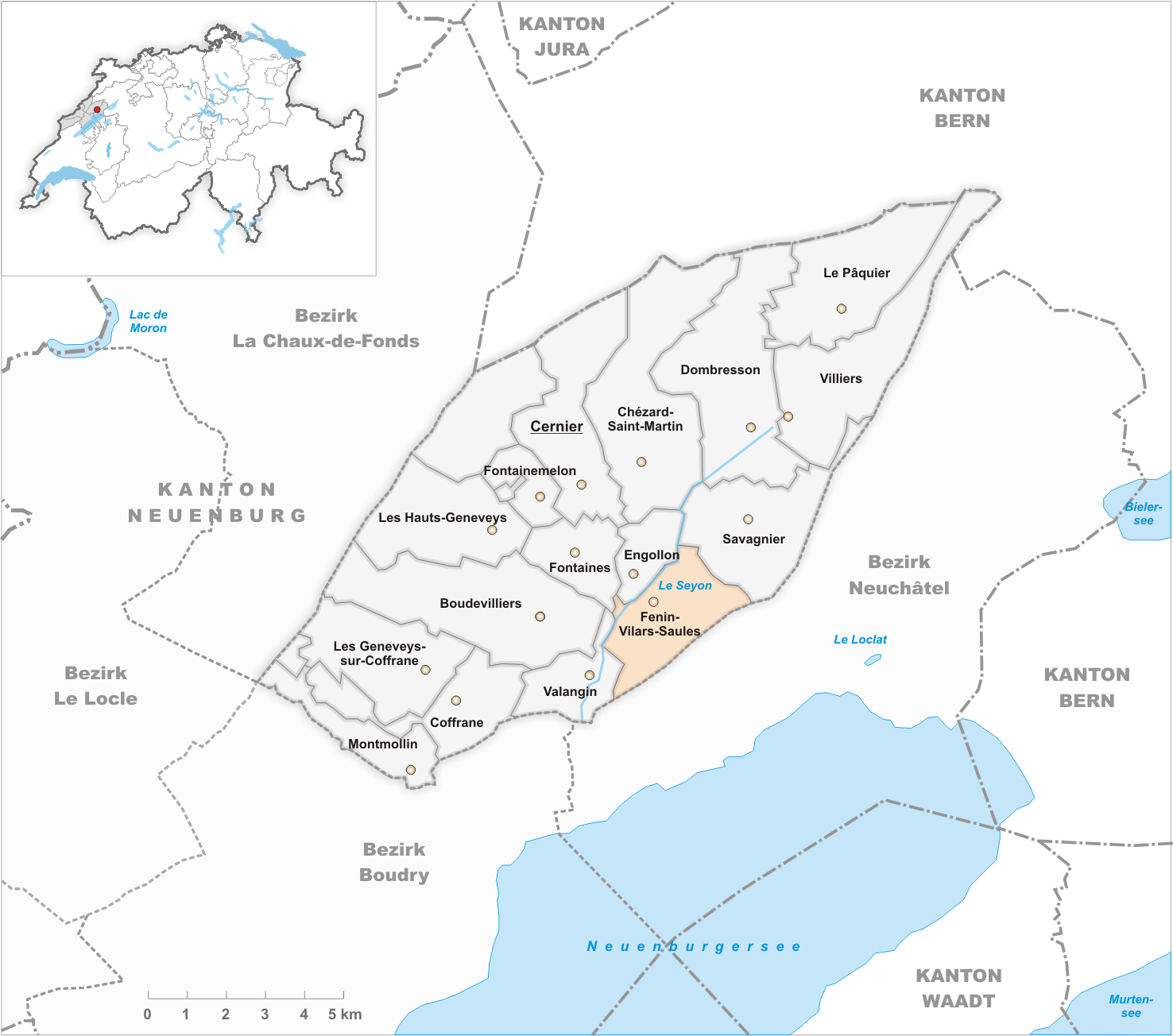 Municipality Fenin-Vilars-Saules